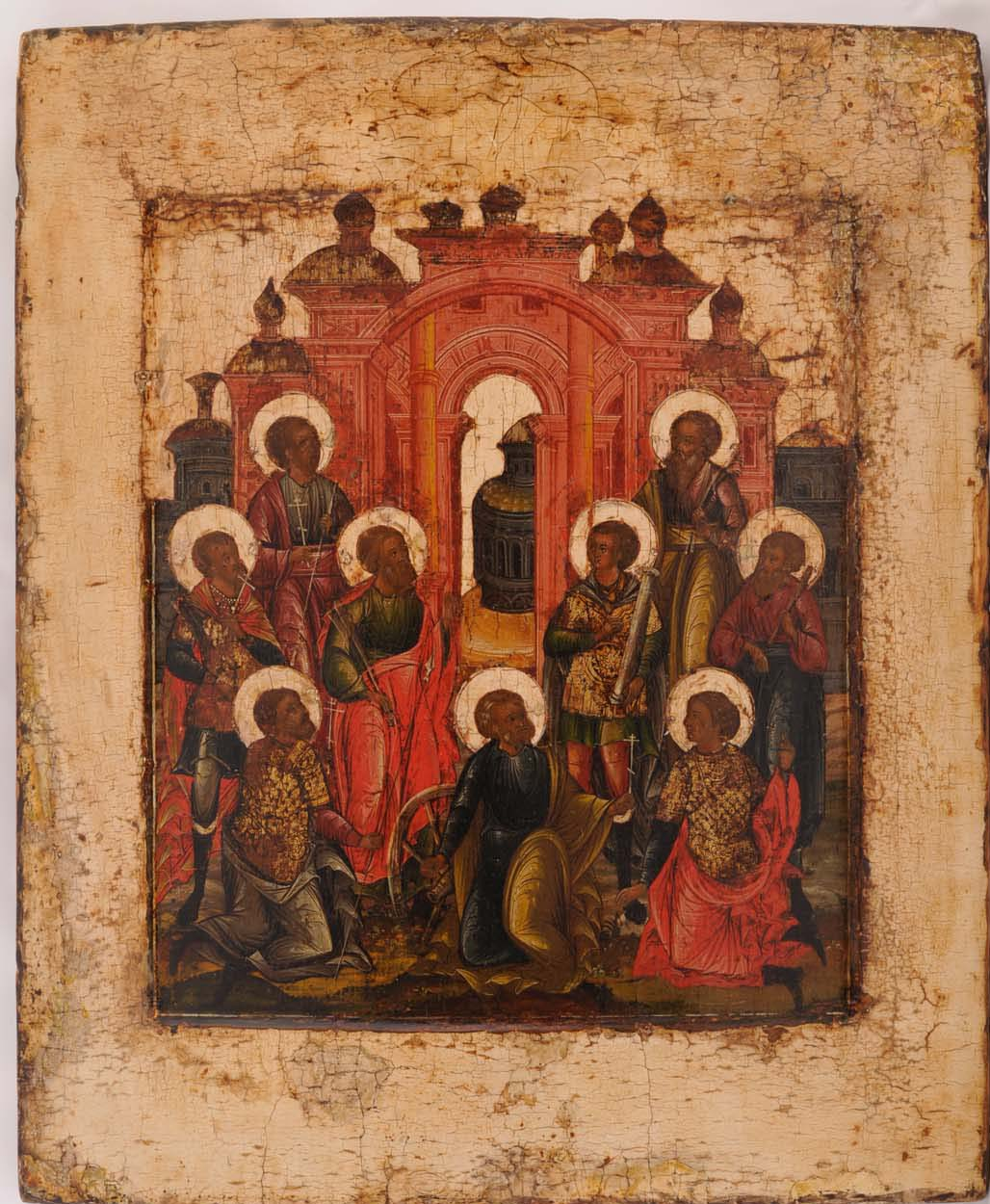 THE NINE MARTYRS OF KYZIKOS RUSSIAN (PALEKH?), CIRCA 1800, 30.8 by 25.2 cm. 12,000-16,000 GBP